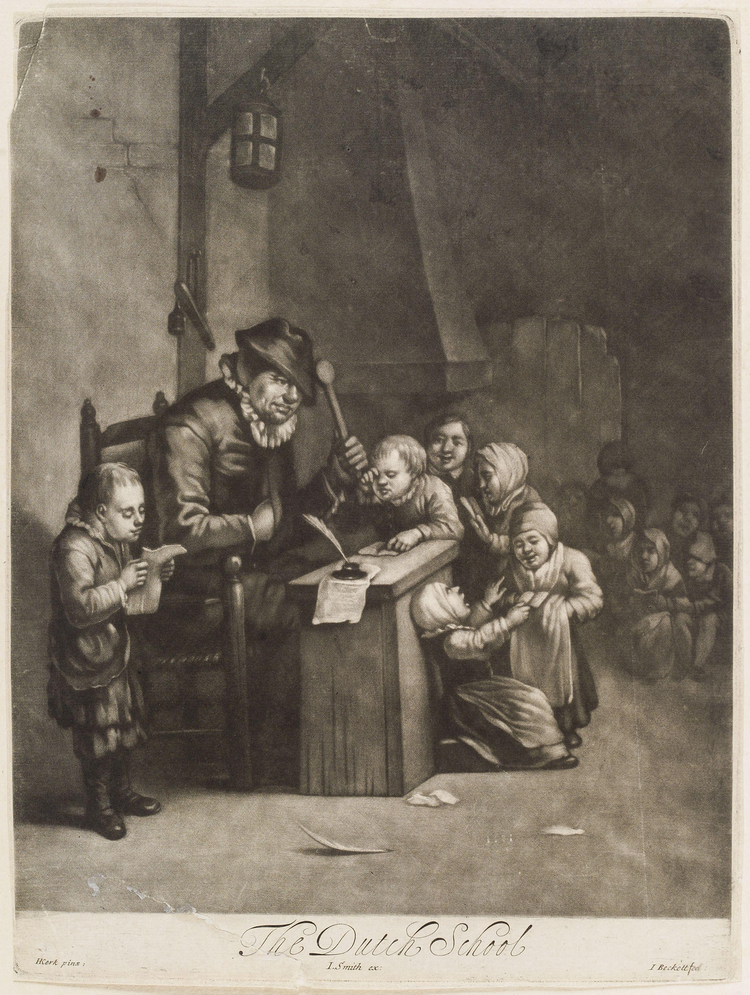 The Dutch School, by Isaac Beckett. All images in this batch have a known author, but have manually examined for strong evidence that the author was dead before 1939, such as approximate death dates, birth dates, floruit dates, and publication dates.